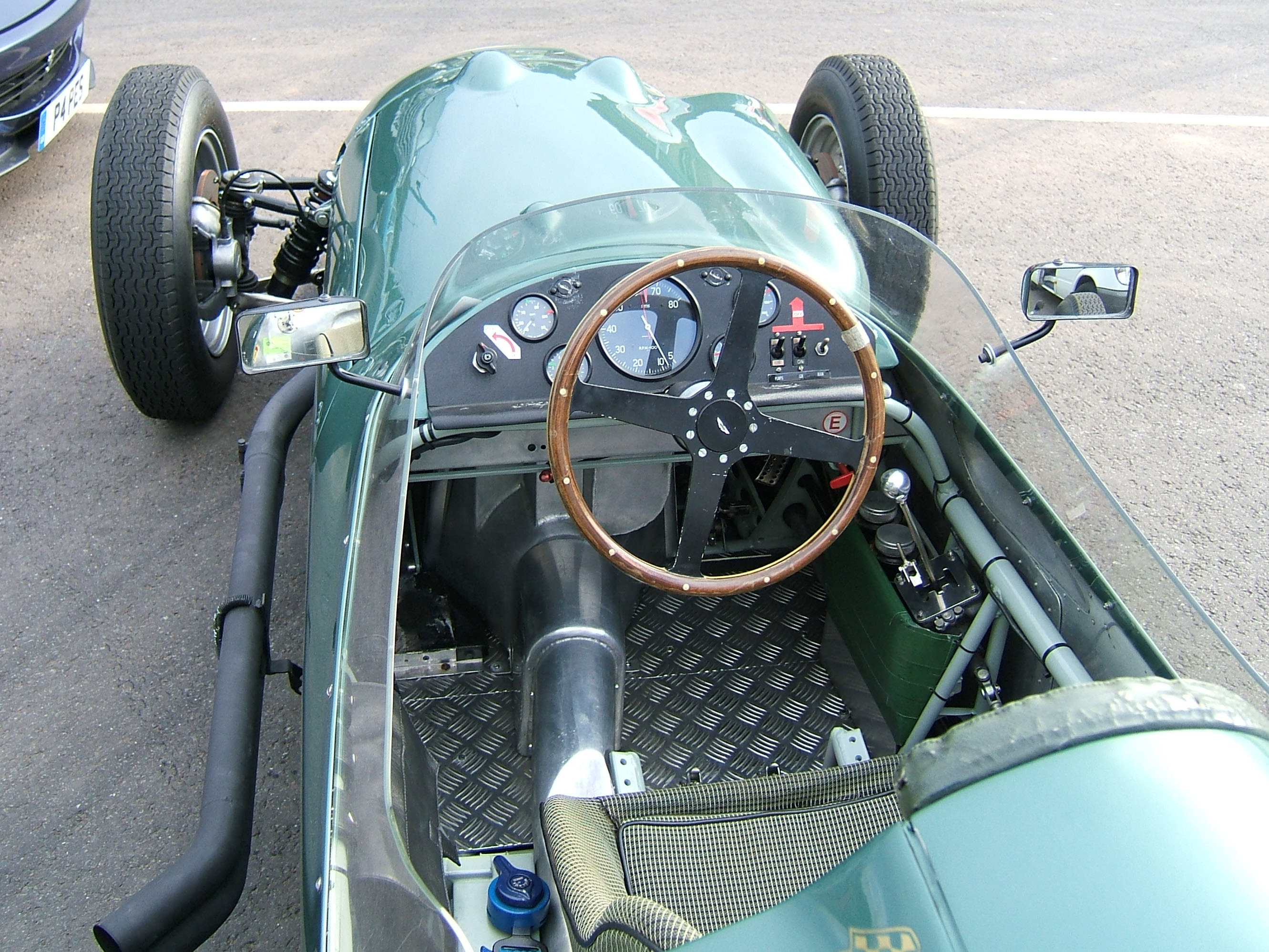 The driver's office of an Aston Martin DBR4 in the paddock, during the VSCC SeeRed race meeting, Donington Park, September 2007.